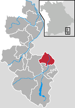 Locator maps of municipalities in Bavaria - District Berchtesgadener Land